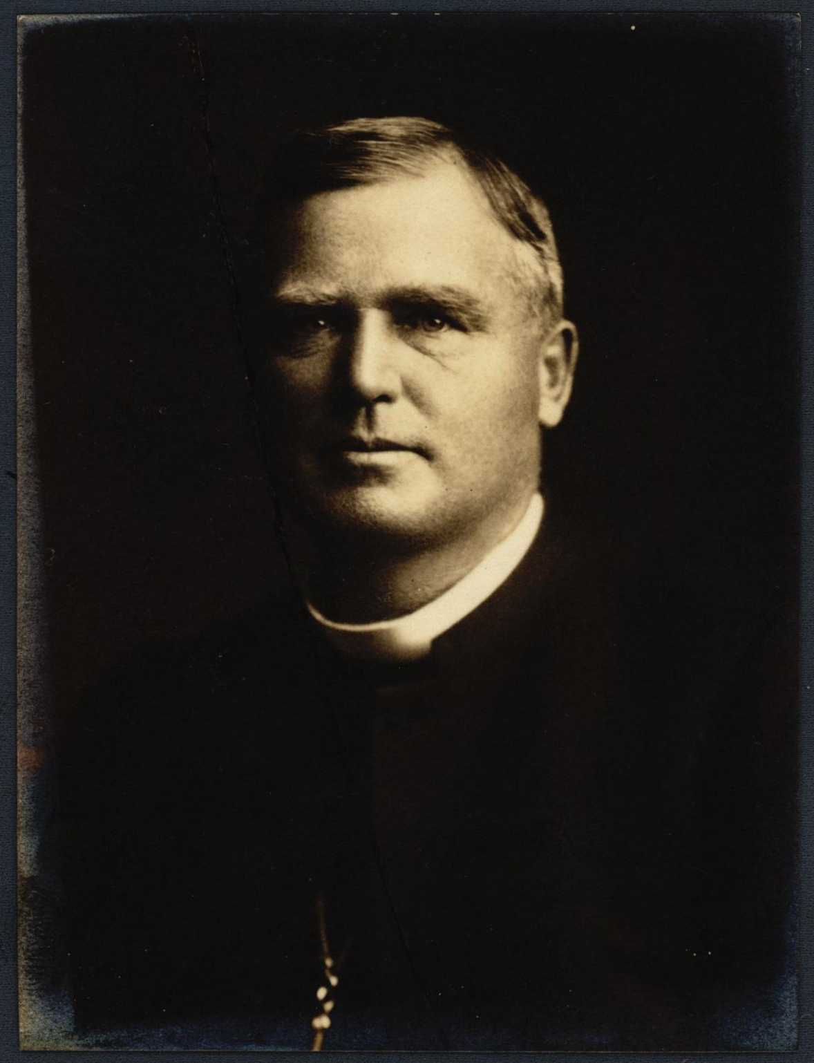 Archives New Zealand Reference: ACGO 8333 IA1 1350 / 15/11/21663